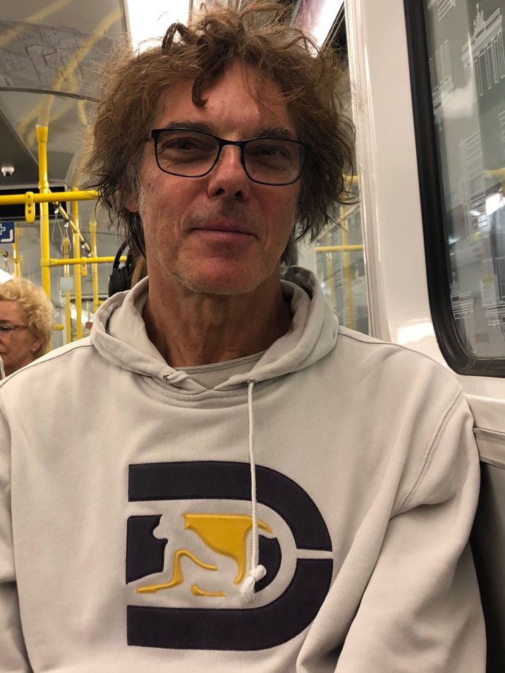 This is a shot I took of Mathias in the U8 line of the Berlin subway. He authorized me to take the photograph and upload it on WIKICommons